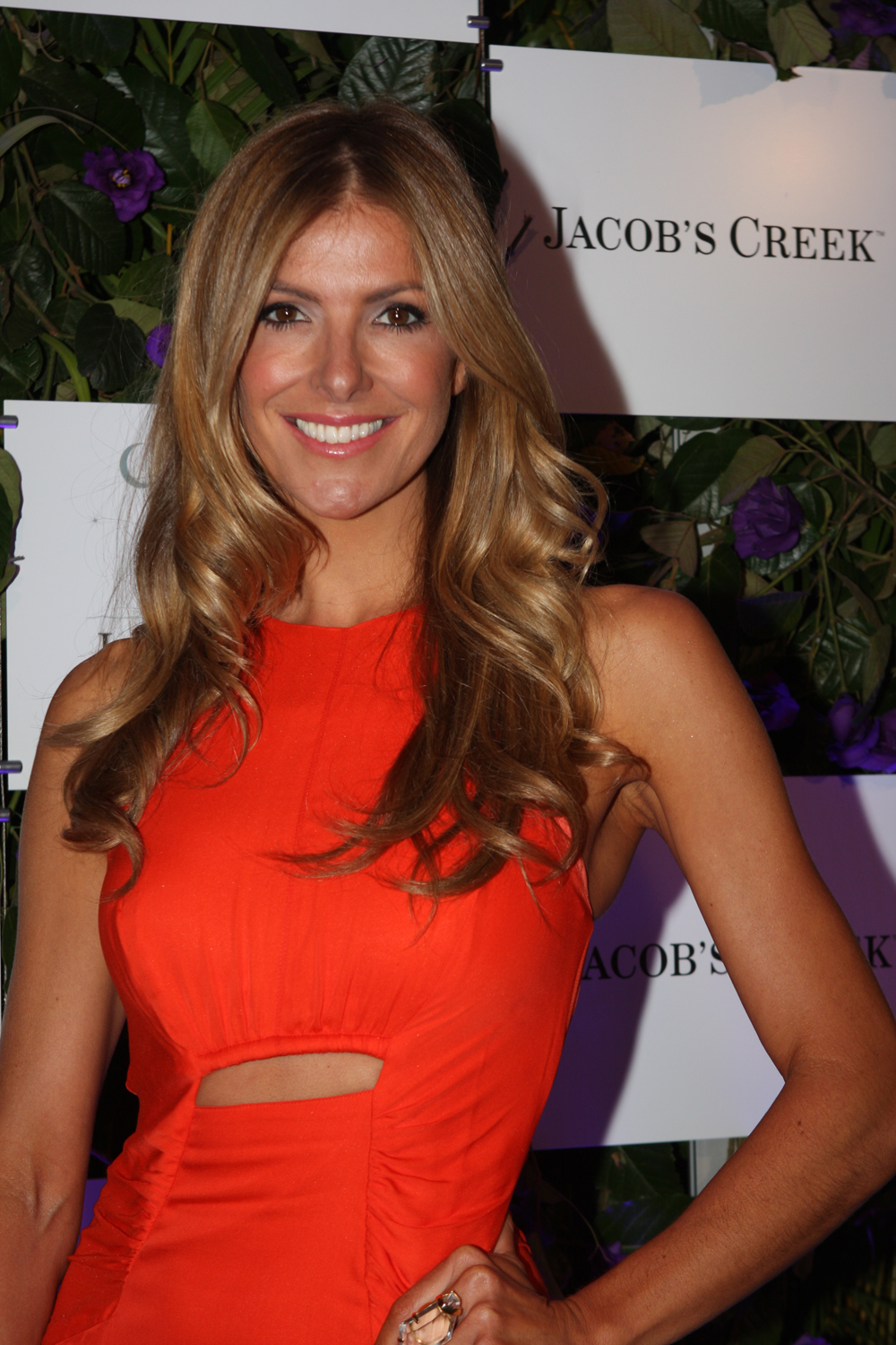 Laura Csortan at the Jacob's Creek Cool Harvest promotion in Sydney's Centennial Park.